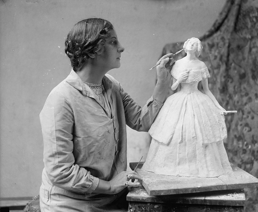 "Mrs. Geo. Oakley Totten, 10/28/26." Photograph of Swedish-American sculptor Vicken von Post Totten (cropped from original).